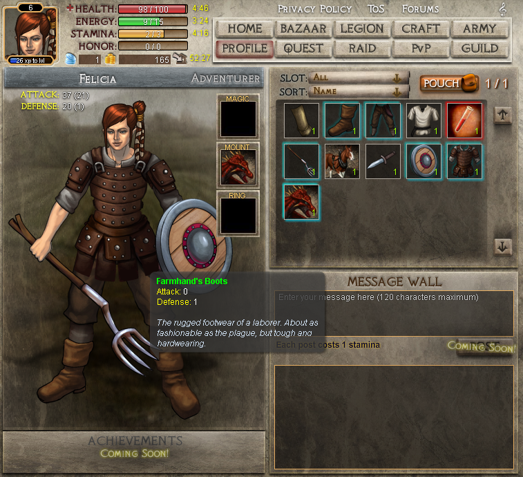 The profile page from "Dawn of the Dragons", a Facebook game.